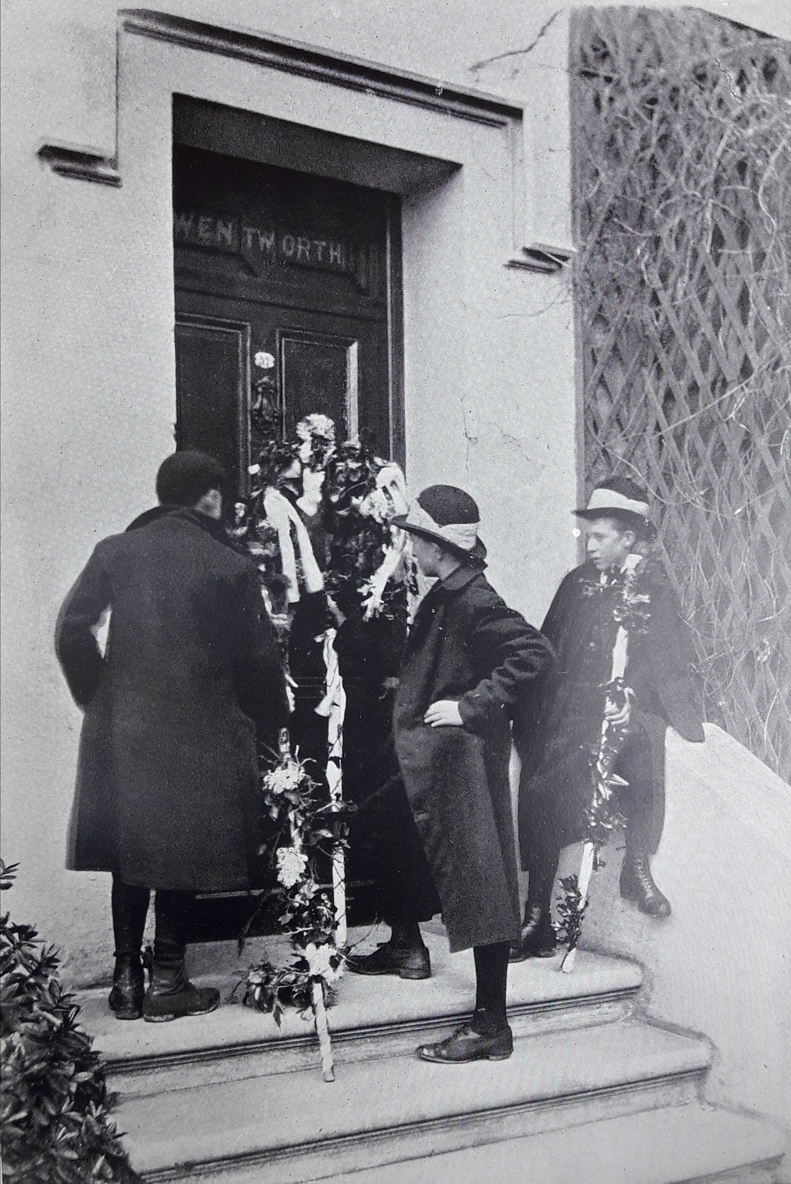 Hunt the Wren in Ramsey, Isle of Man, in 1904. Photographed by G. B. Cowen and first published in P. G. Ralfe's Birds of the Isle of Man (1905) Gaelg: Shelg yn Drean, Rhumsaa, 1904